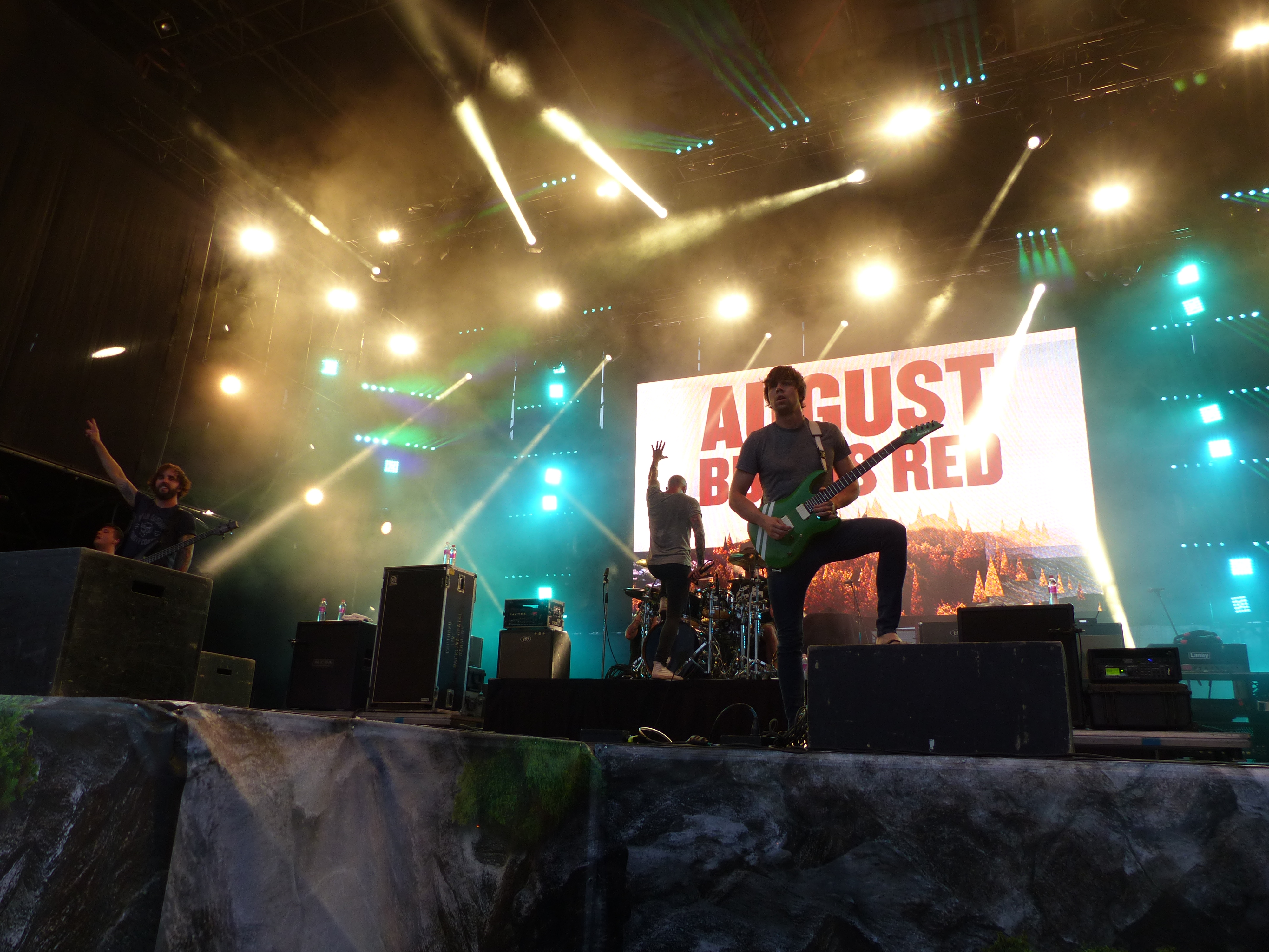 Taken on th 14th of June, 2016. Budapest Park, Budapest. August Burns Red.